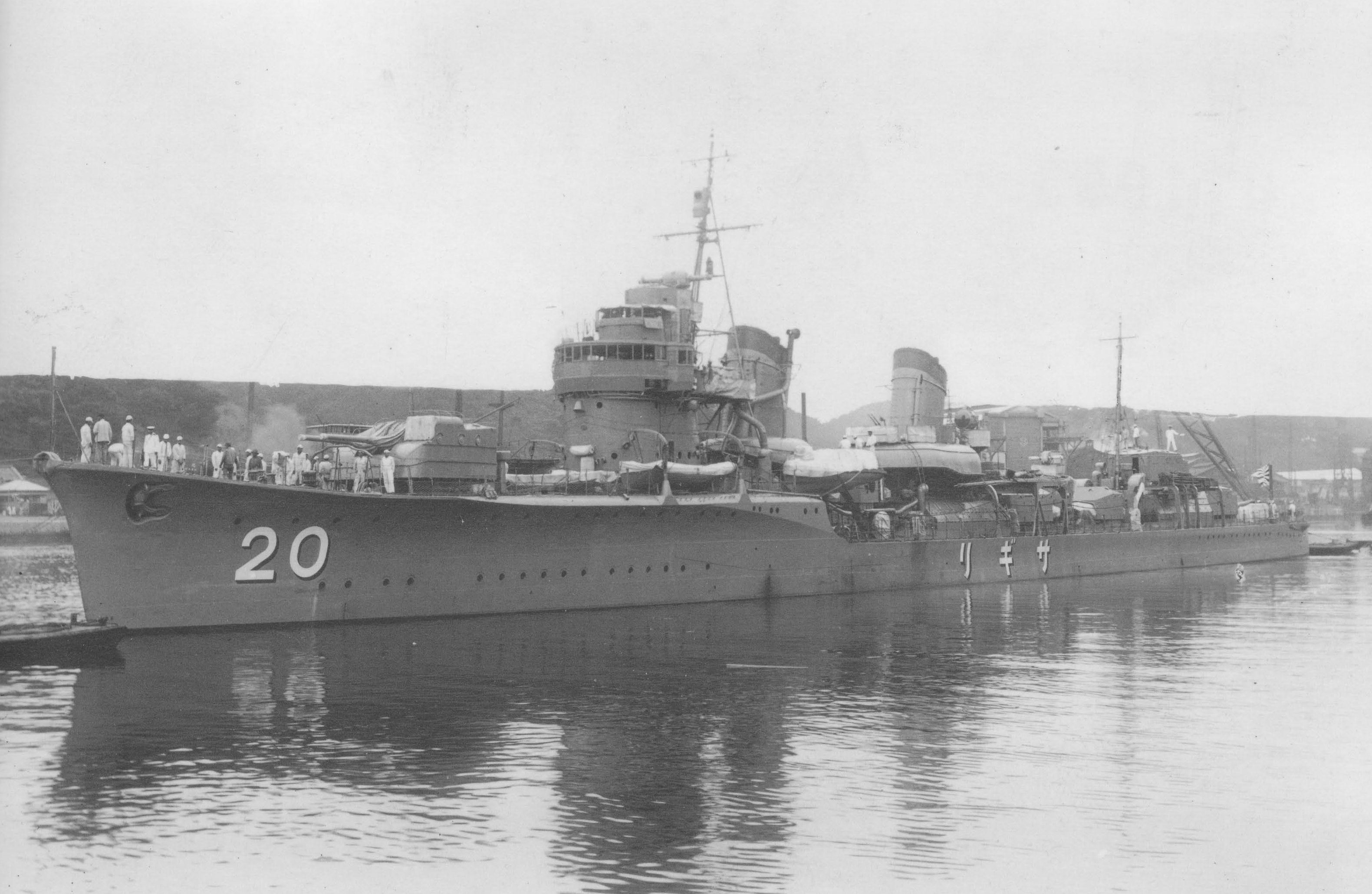 Imperial Japanese Navy destroyer Sagiri